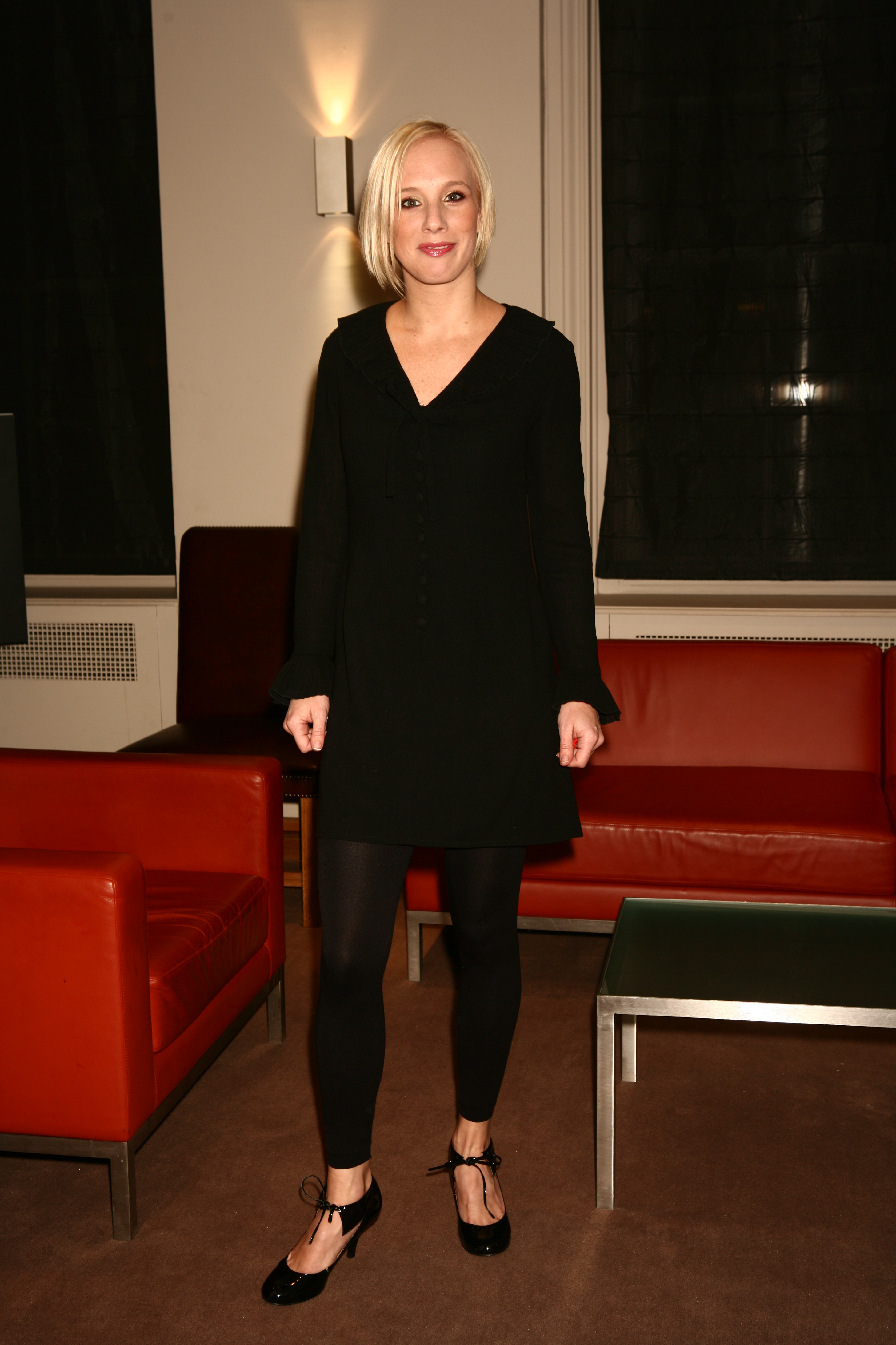 Kirsten O'Brien Lighthouse Gala Auction in aid of Terrence Higgins Trust. Please attribute photo to Piers Allardyce